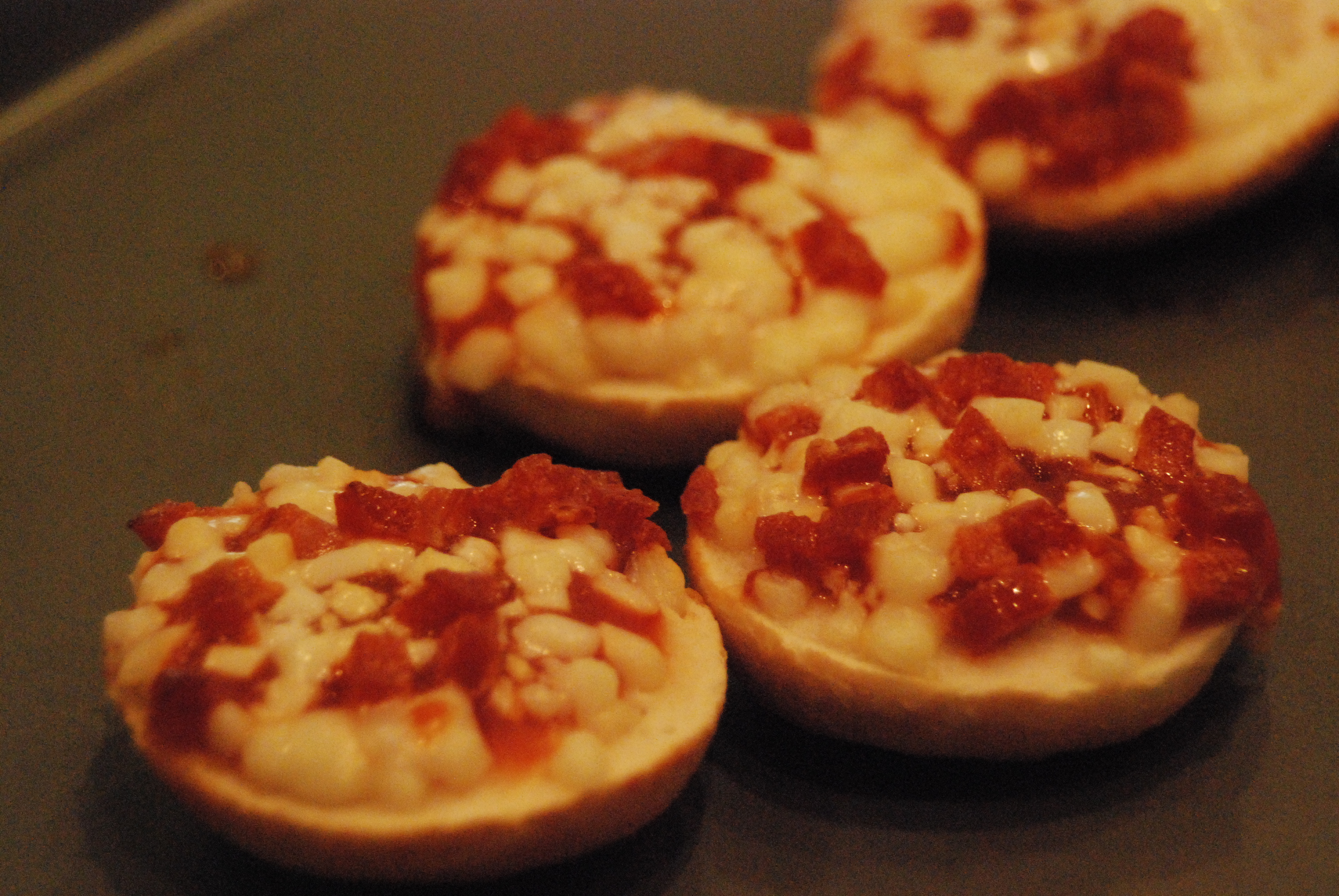 Picture of delicious-looking Bagel Bites-brand pizza bagels.